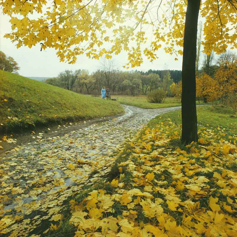 The famous park of Donduseni district.